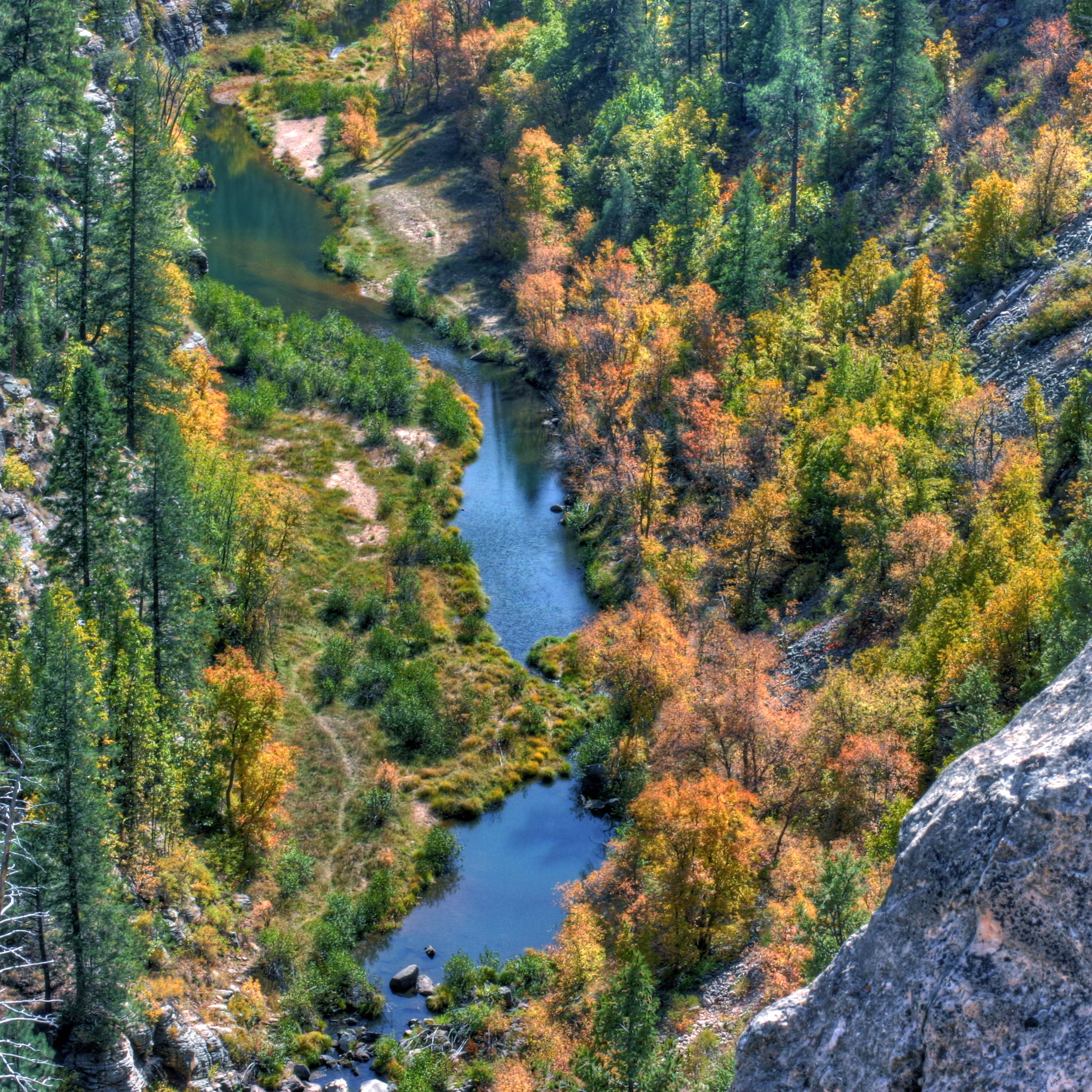 The Blue Ridge Reservoir from Forest Road 751, in Coconino National Forest, Central Arizona.